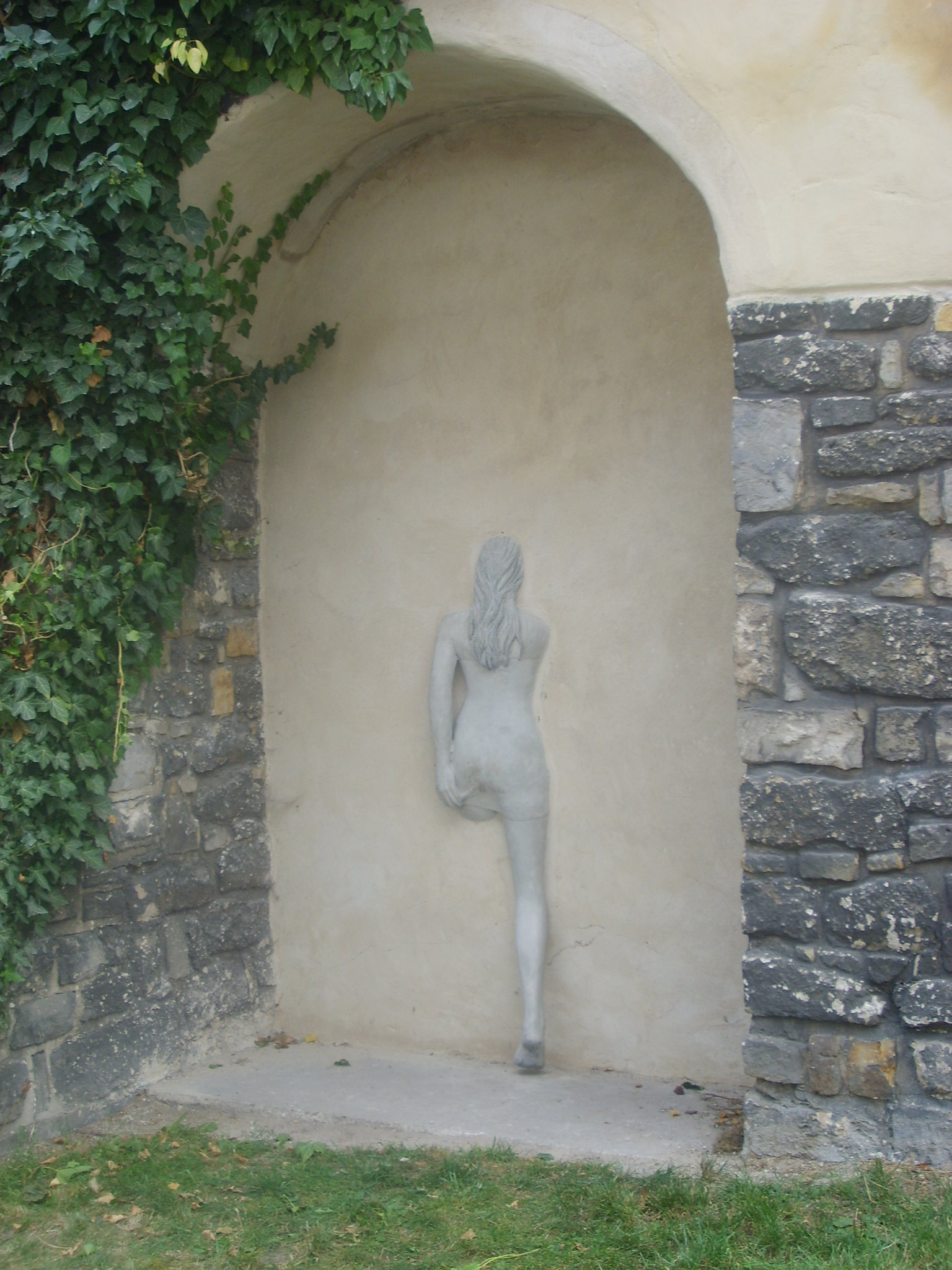 "Mistress of Emperor Rudolf II" - a modern sculpture made of cement mix. Located in Brandýs nad Labem, Czech Republic outside a palace